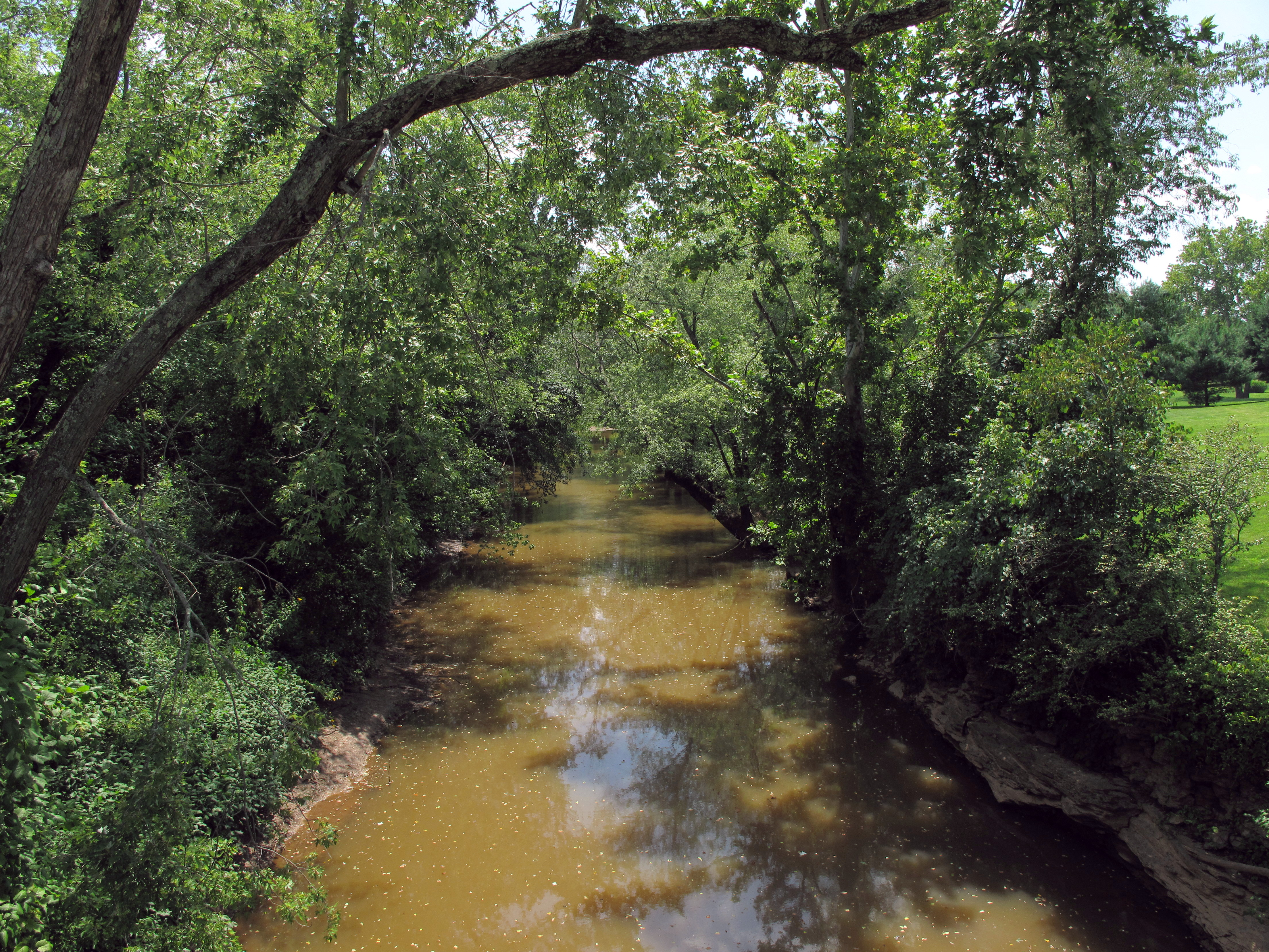 Worthington Creek as viewed downstream from Old 7th Street in Parkersburg, West Virginia